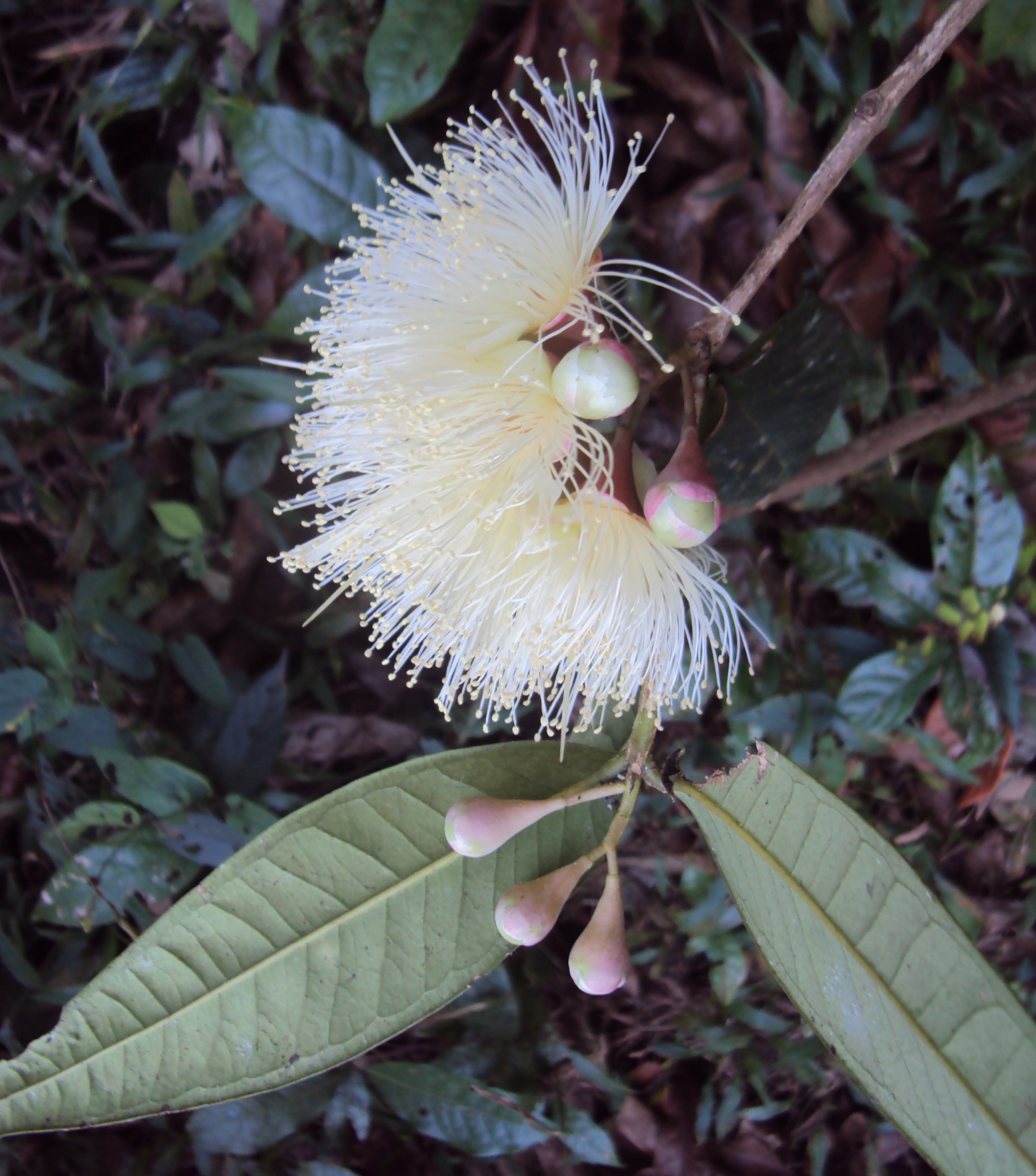 Syzygium Munronii